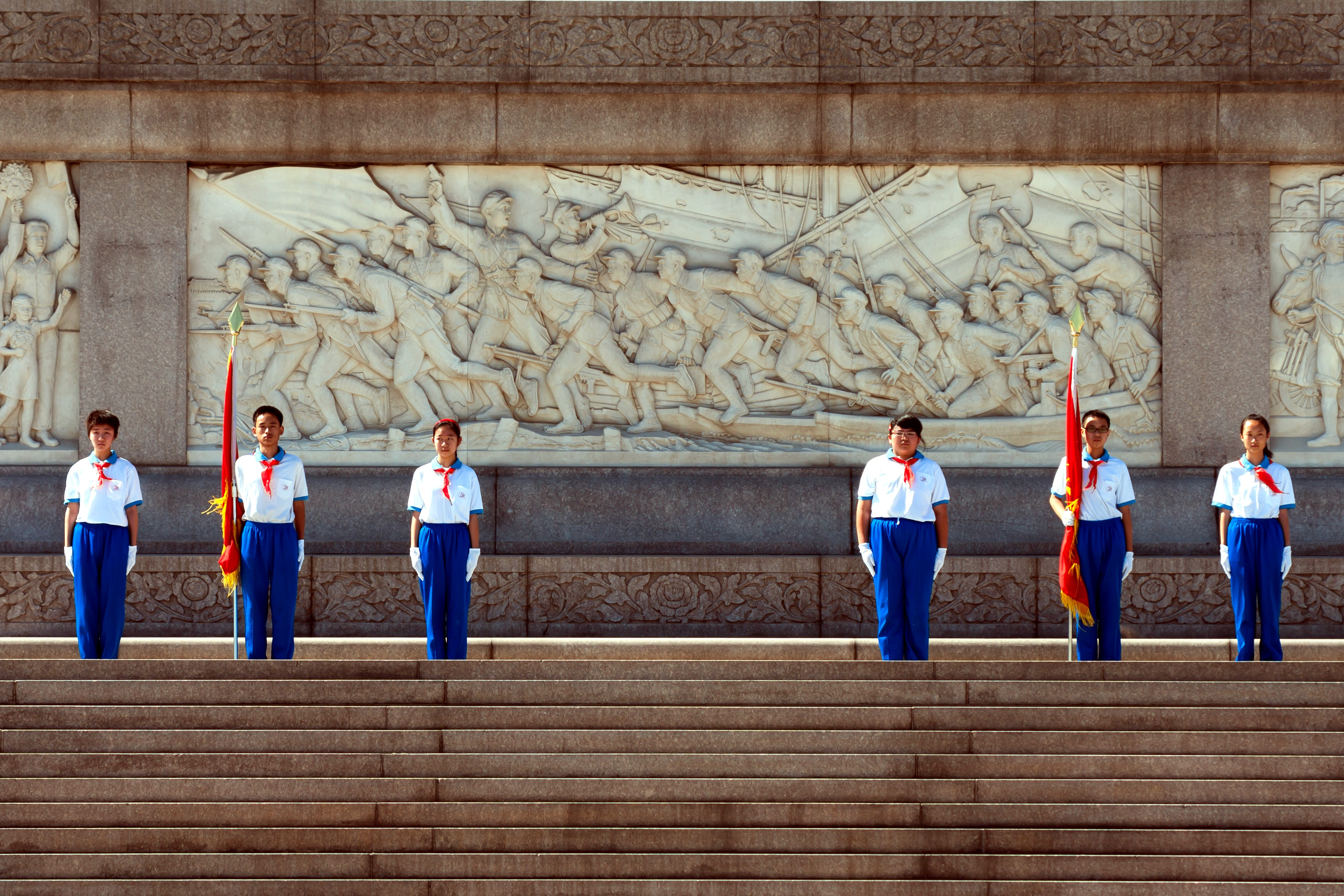 Beijing, China: Young Pioneers of China standing honour guard at the Monument to the People's Heroes at Tianamen Square